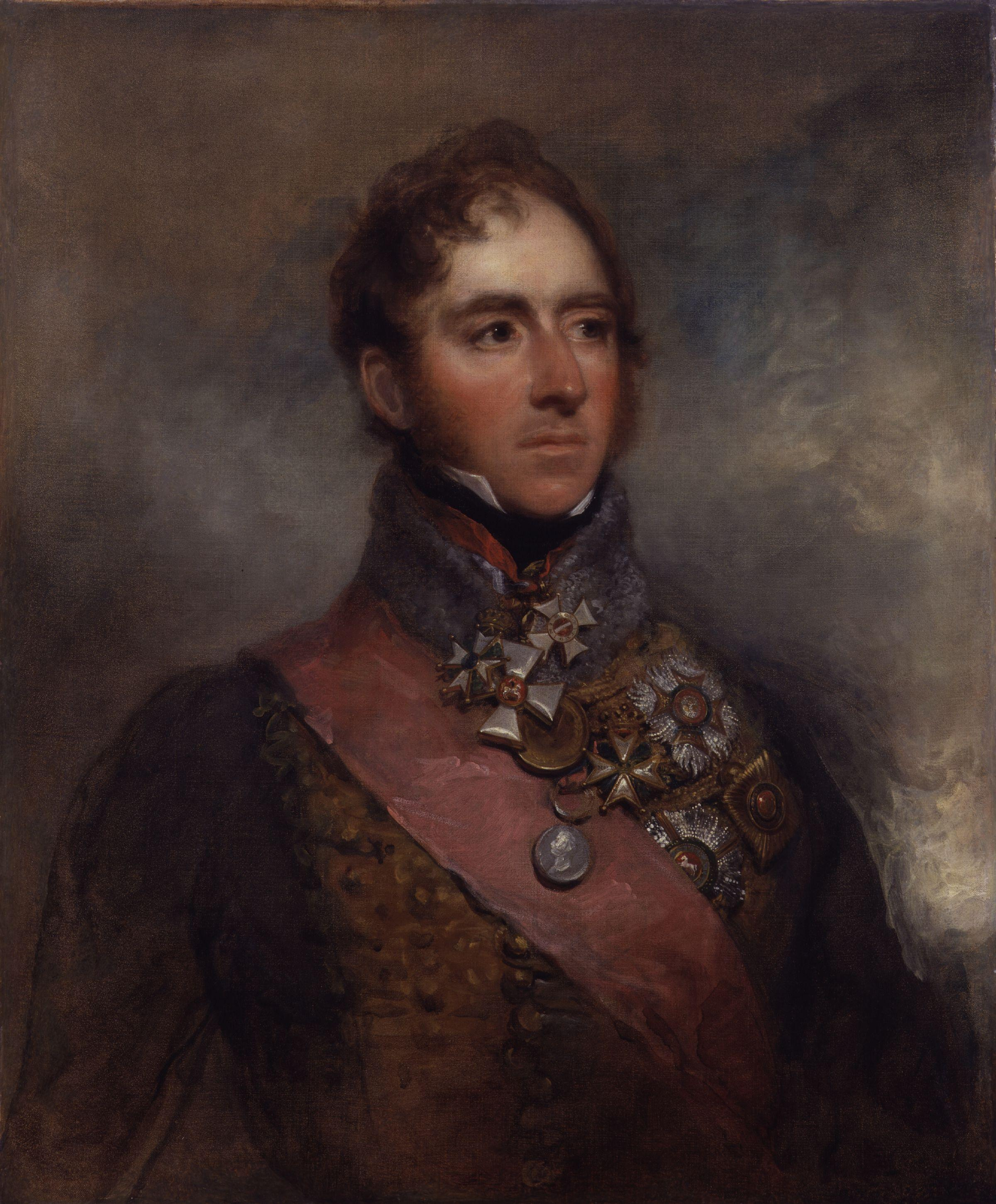 Henry William Paget, 1st Marquess of Anglesey, by George Dawe (died 1829). All images in this batch have been confirmed as author died before 1939 according to the official death date listed by the NPG.